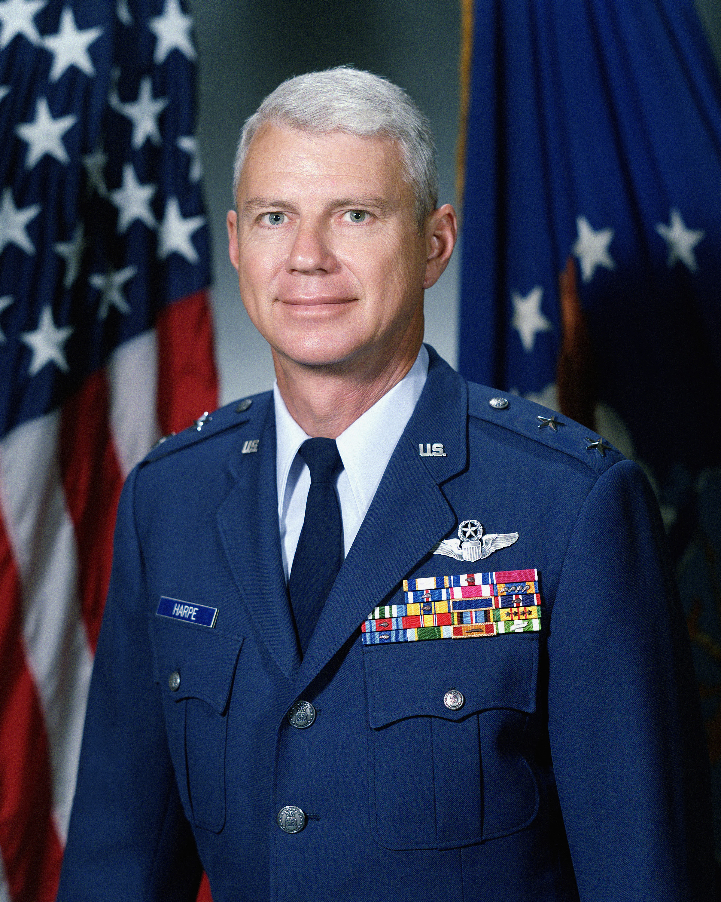 Major General Winfield S Harpe, USAF